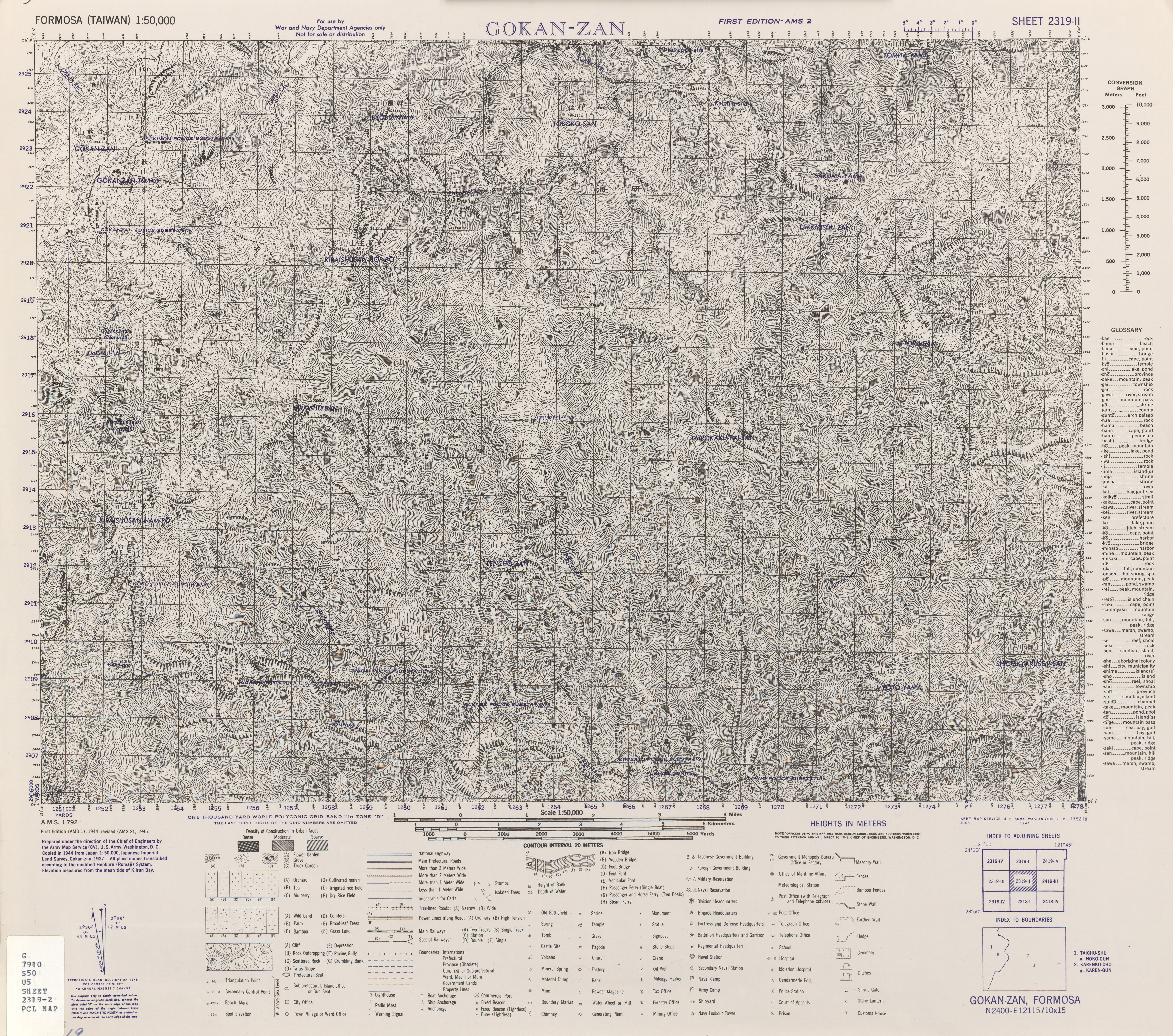 Map from Formosa (Taiwan) 1:50,000 AMS Series L792